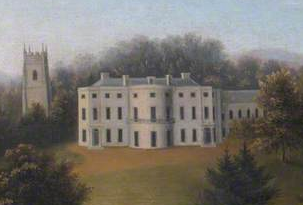 "A View of Arlington Court and St James's Church Tower from the Park", (detail), painted in 1797 by Maria Pixell. This is the house before the demolition and rebuilding of 1820-23. National Trust, Arlington Court Collection, oil on canvas, 50.8 x 61 cm